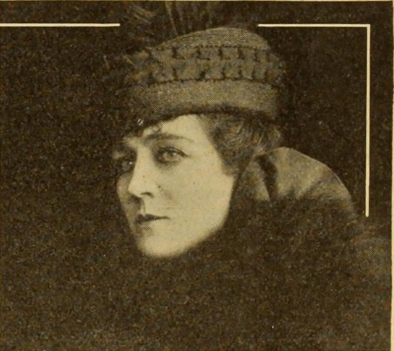 actress Katherine Griffith. Title: Motion Picture Studio Directory and Trade Annual (1916) Year: 1916 (1910s) Authors: Motion Picture News, Inc. Subjects: Motion Pictures Film Industry Yearbook nyarc-museumofmodernart Publisher: New York, Motion Picture News, Inc.